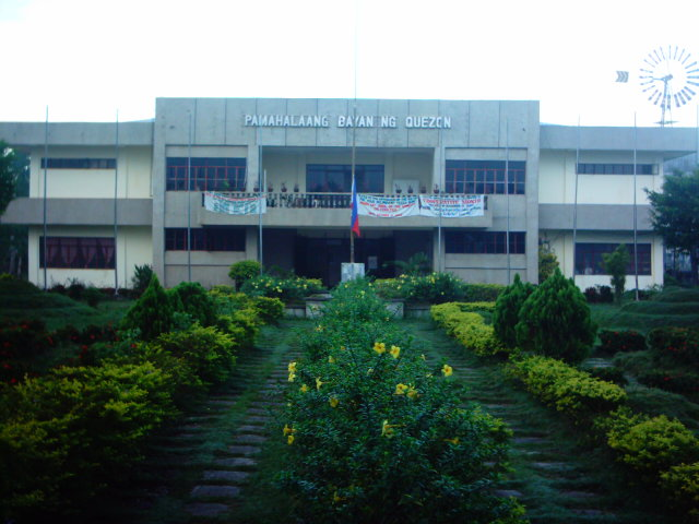 Picture taken as a special project for the Municipal Government of Quezon